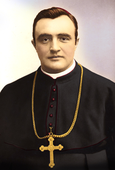 Mainz Germany Bishop Georg Heinrich Maria Kirstein This Roman Catholic Bishop supposedly ordained Father Hans Schmidt into the priesthood in Mainz December 23, 1904.